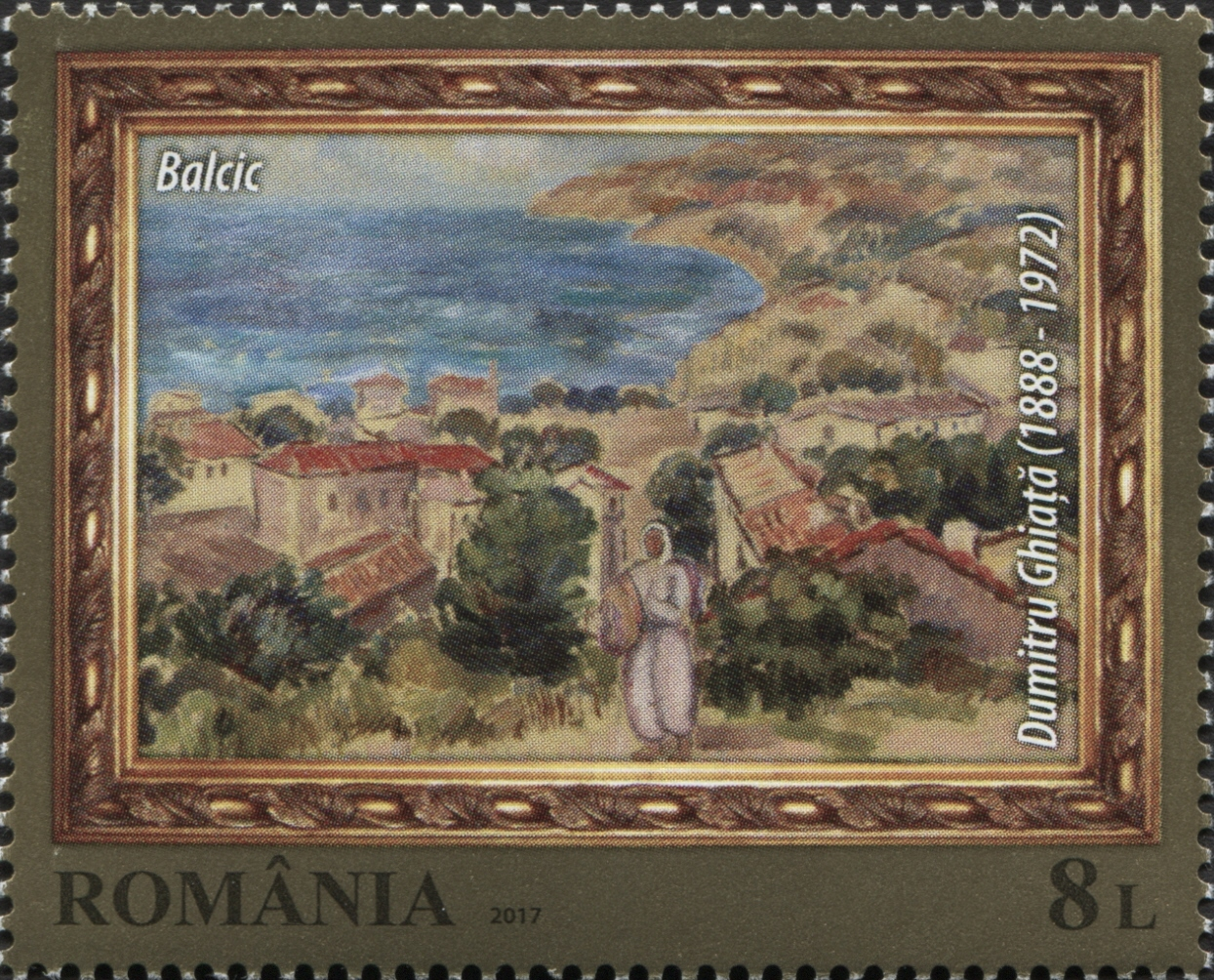 Marine Landscapes in painting - 'Balchik' by Dumitru Ghiață